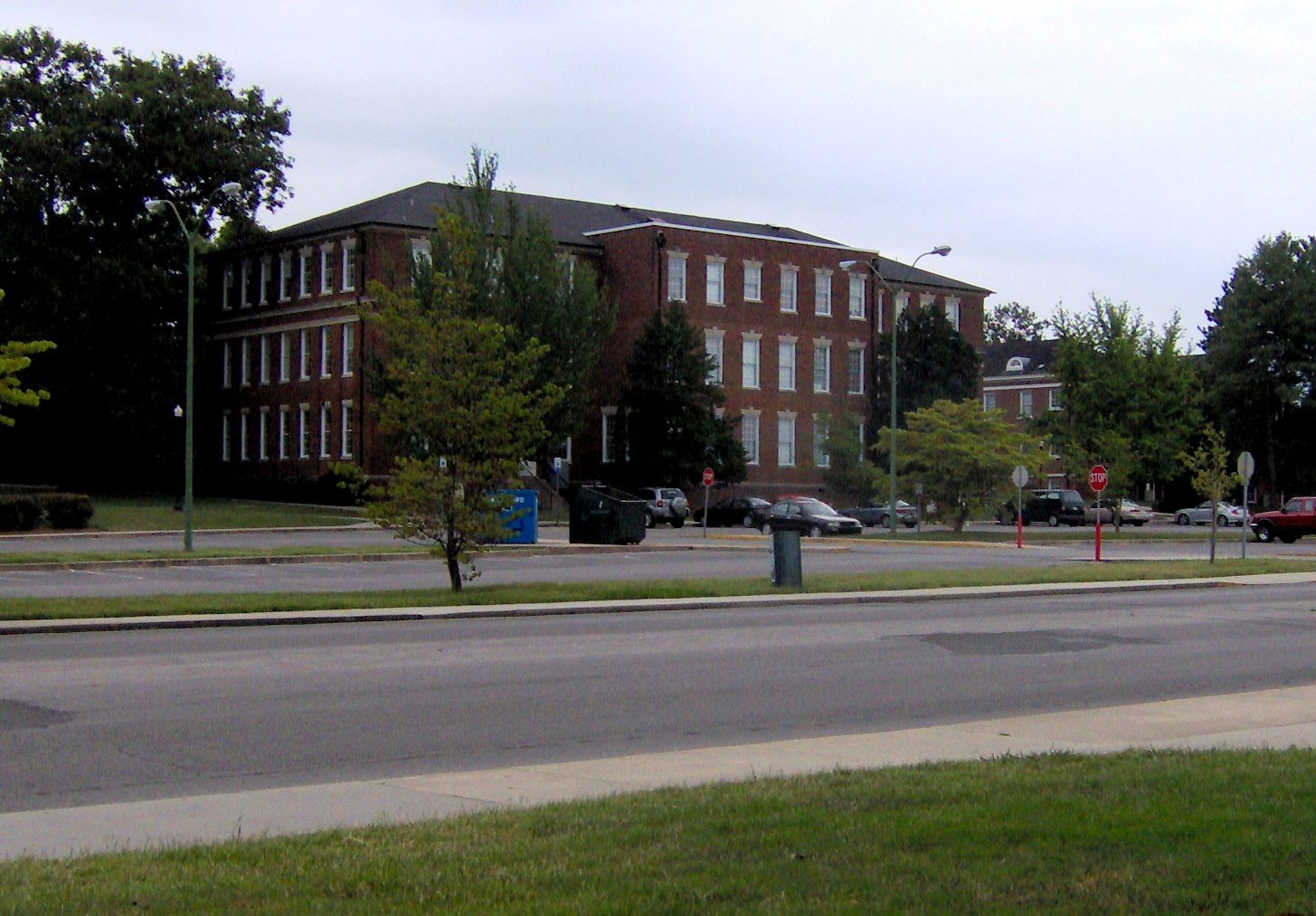 The TJ Farr Building on the campus of Tennessee Technological University, built in 1928.